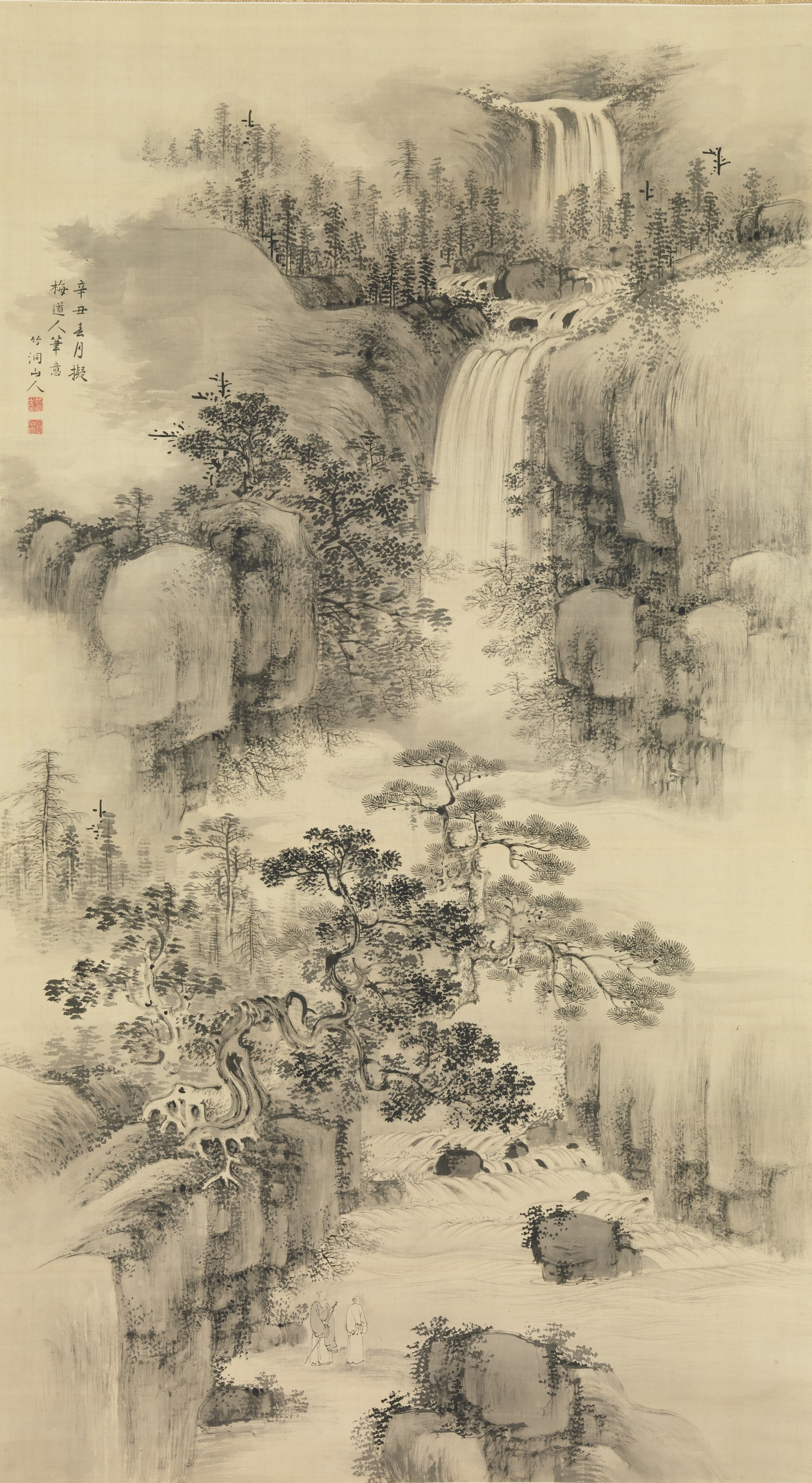 Chikuto: Landscape with Waterfall